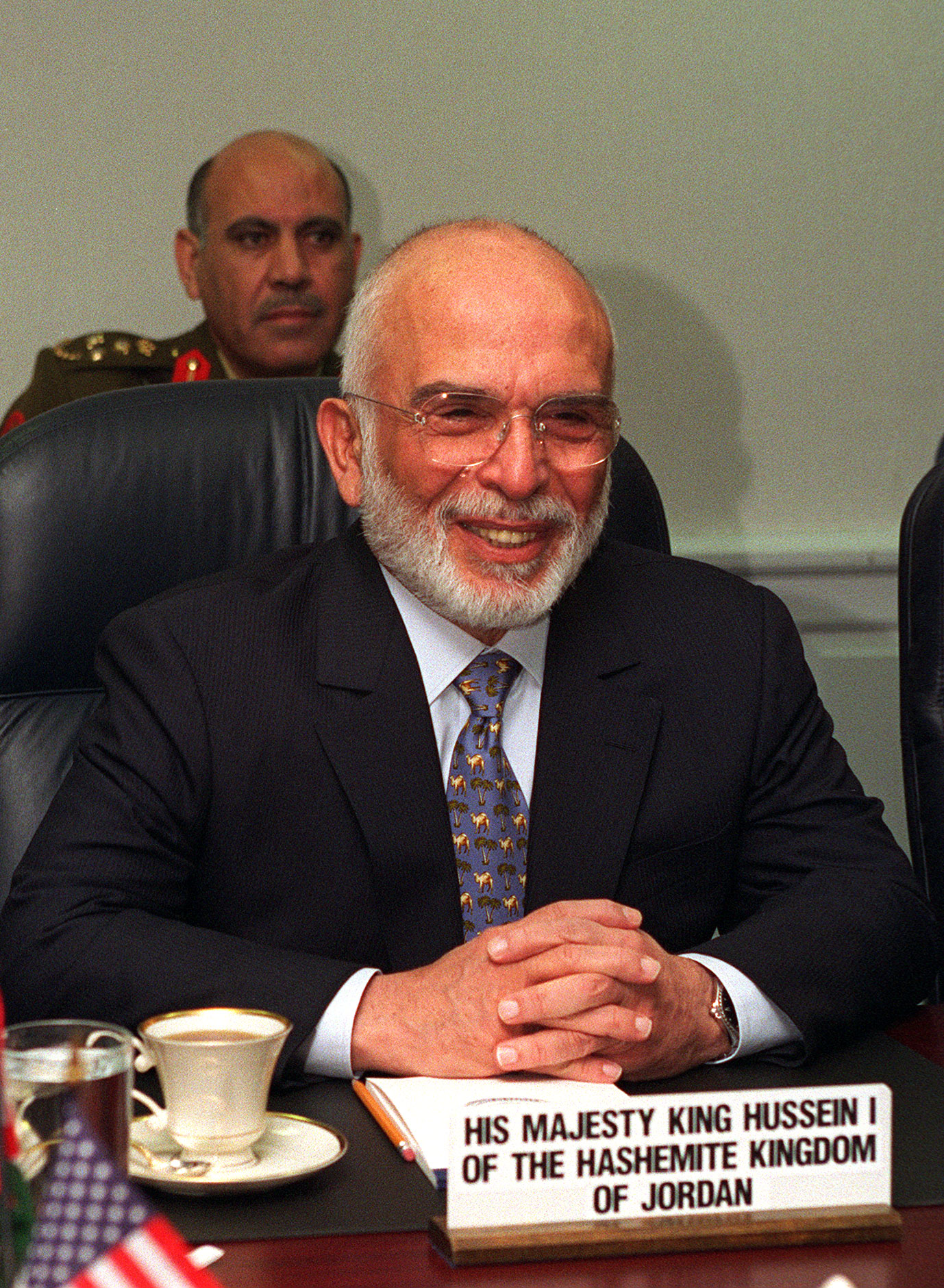 King Hussein I , of the Hashemite Kingdom of Jordan, meets with Secretary of Defense William S. Cohen in the Pentagon on April 2, 1997. Helene C. Stikkel.